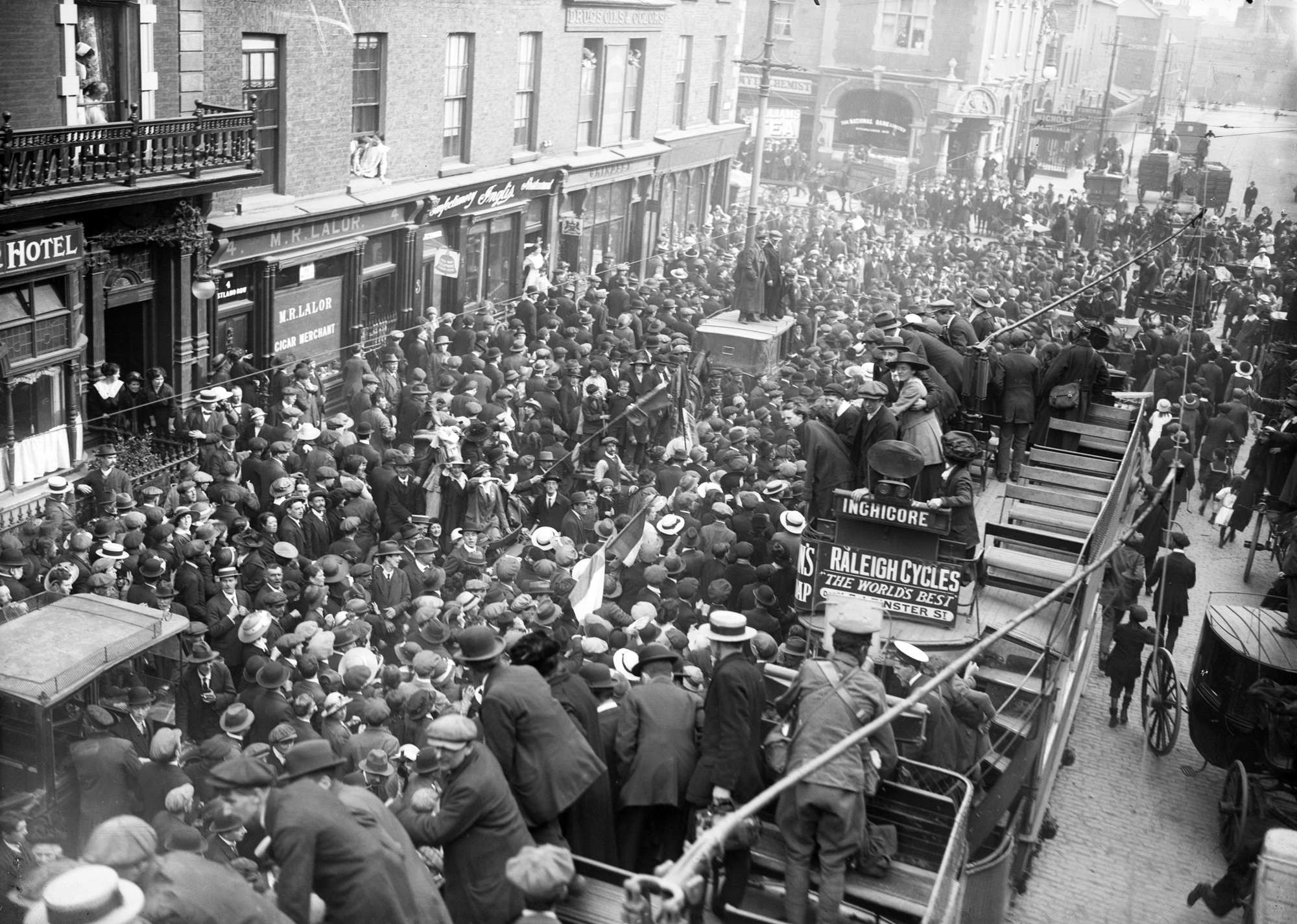 Crowds waiting to meet prisoners released under general amnesty. This photo must have been taken from the railway bridge at Westland Row station as was (Pearse Station now). Date: Monday morning, 18 June 1917 (thanks DannyM8) NLI Ref.: Ke 125